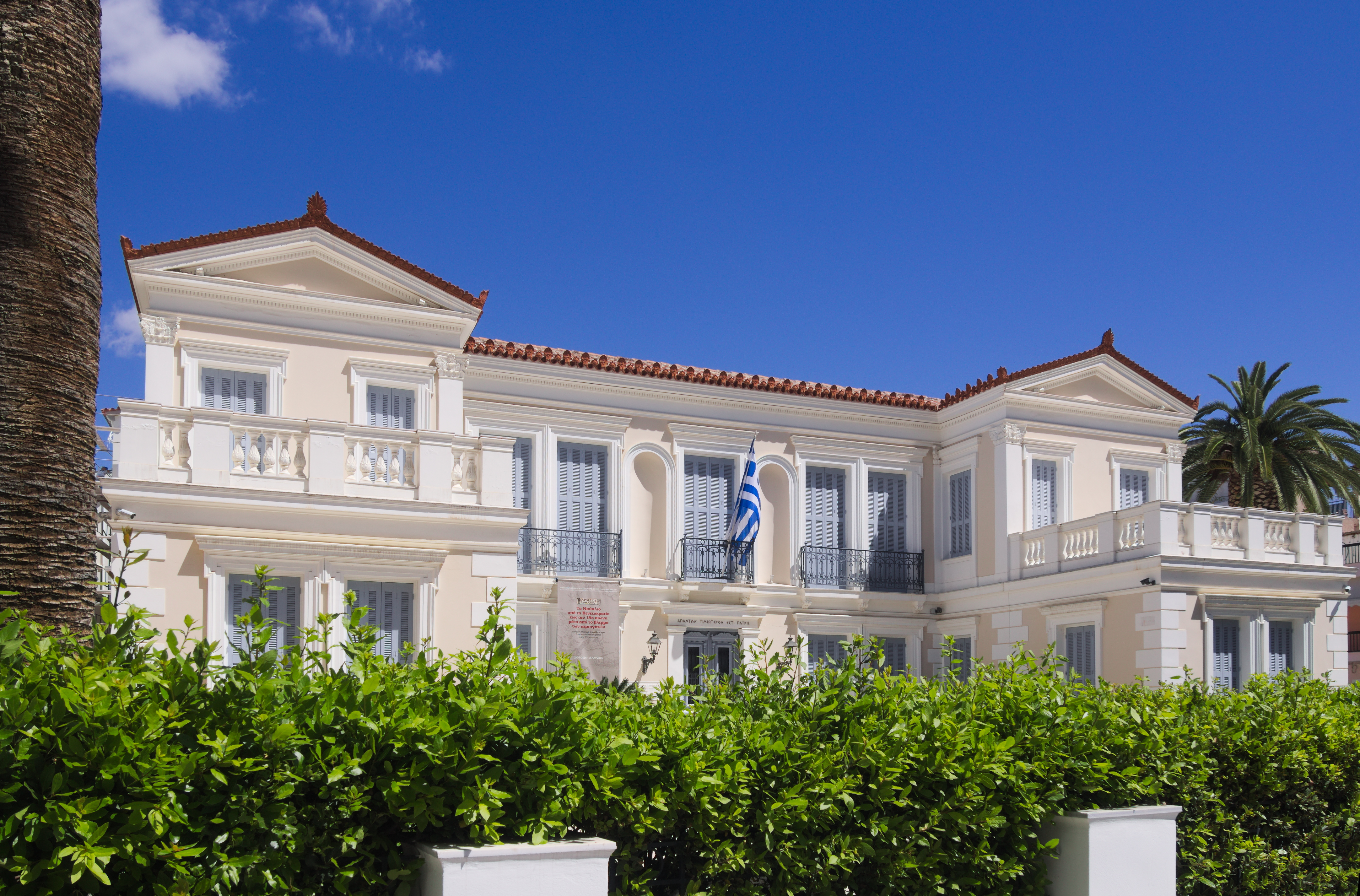 The branch of national gallery at Nafplion. The neoclassic building was constructed in 1905.